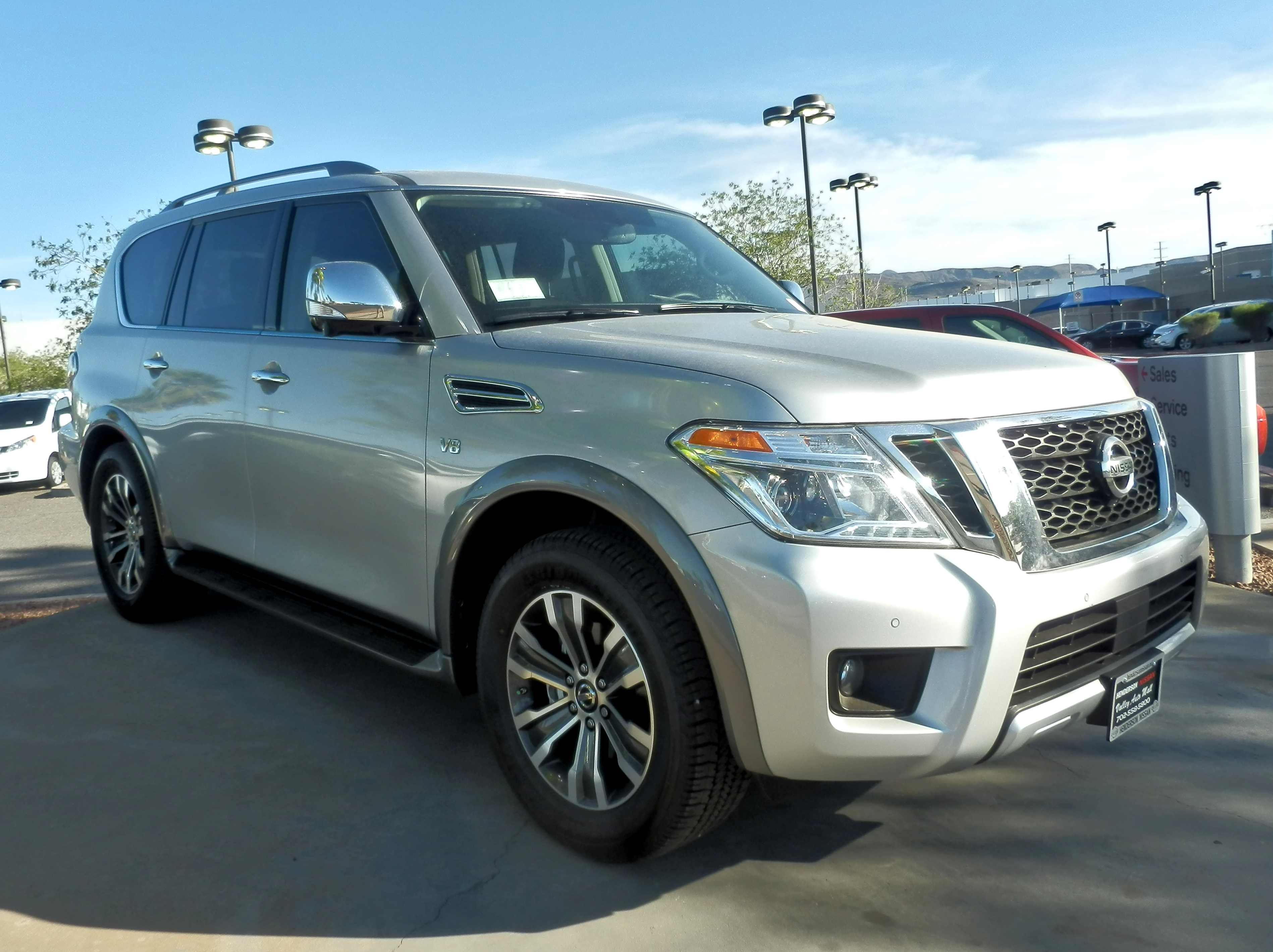 Nissan Armada in Las Vegas